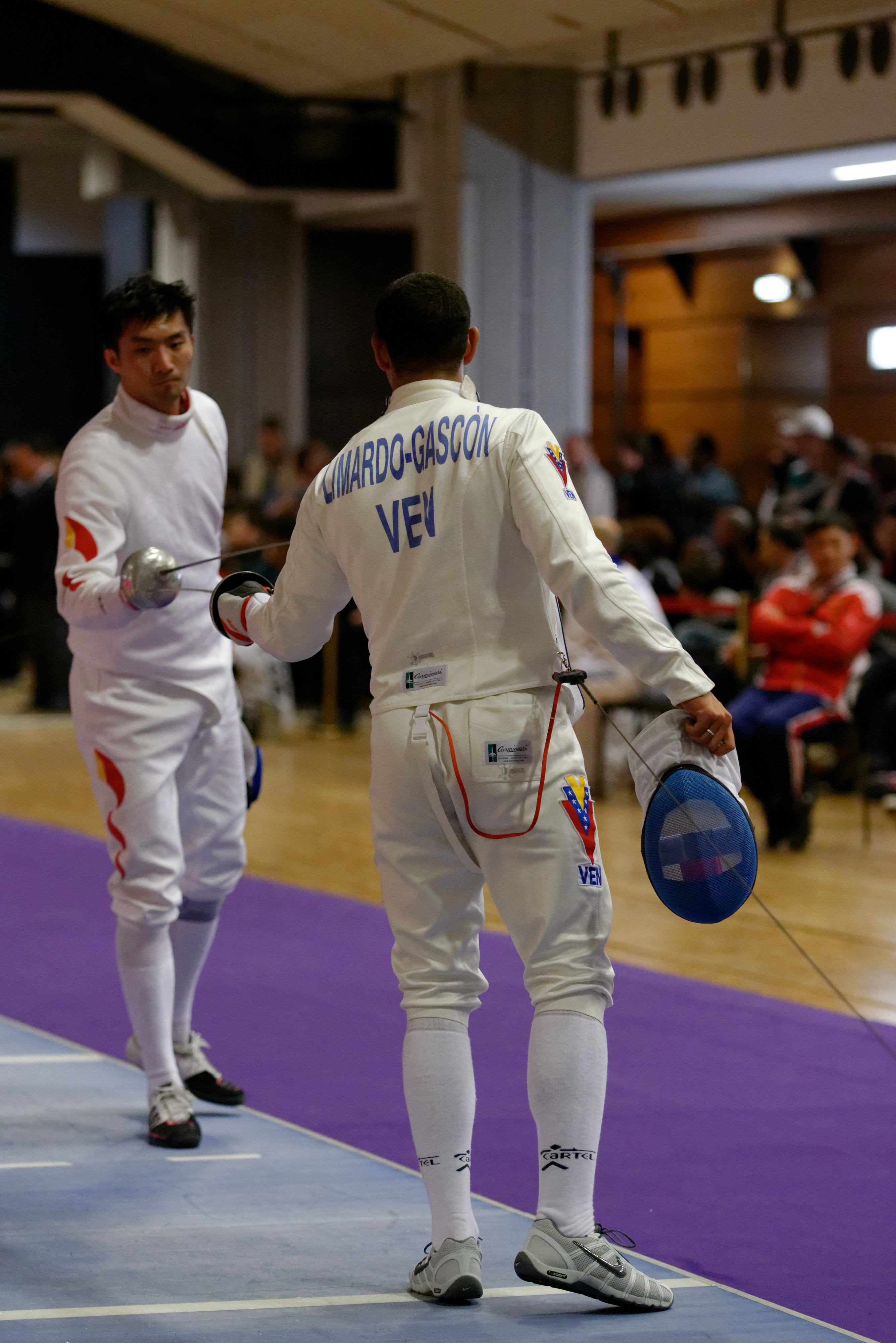 China's Jiao Yunlong (facing) fences against Rubén Limardo Gascón of Venezuela (from the back) in the T32 in the Challenge Réseau Ferré de France–Trophée Monal 2013, a men's épée FIE World Cup competition. Louvre Carrousel, Paris.